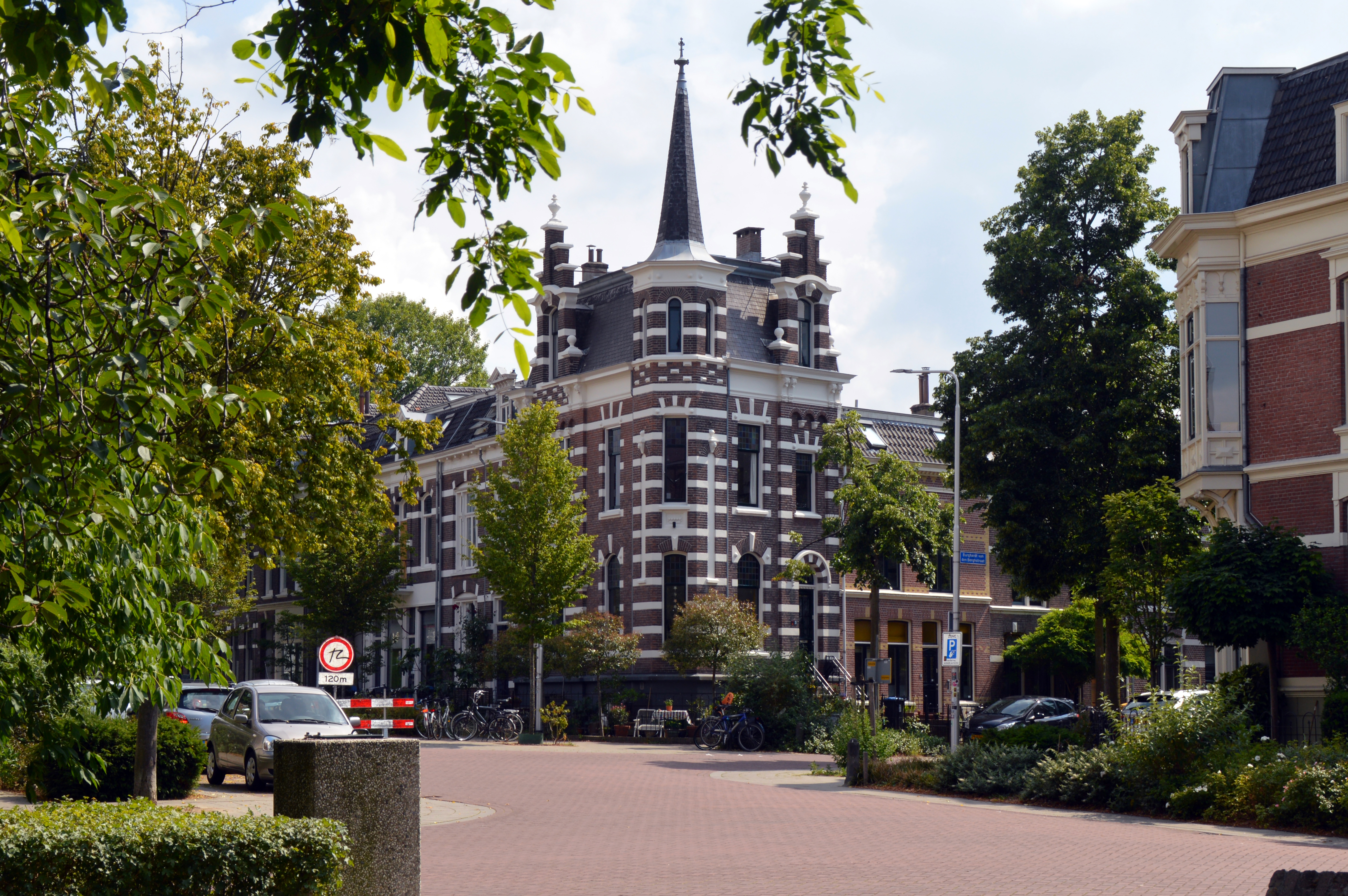 Burghardt van den Berghstraat 3 corner Stijn Buysstraat Nijmegen Bottendaal architect H.M.Hendriks Neorenaissance 1895